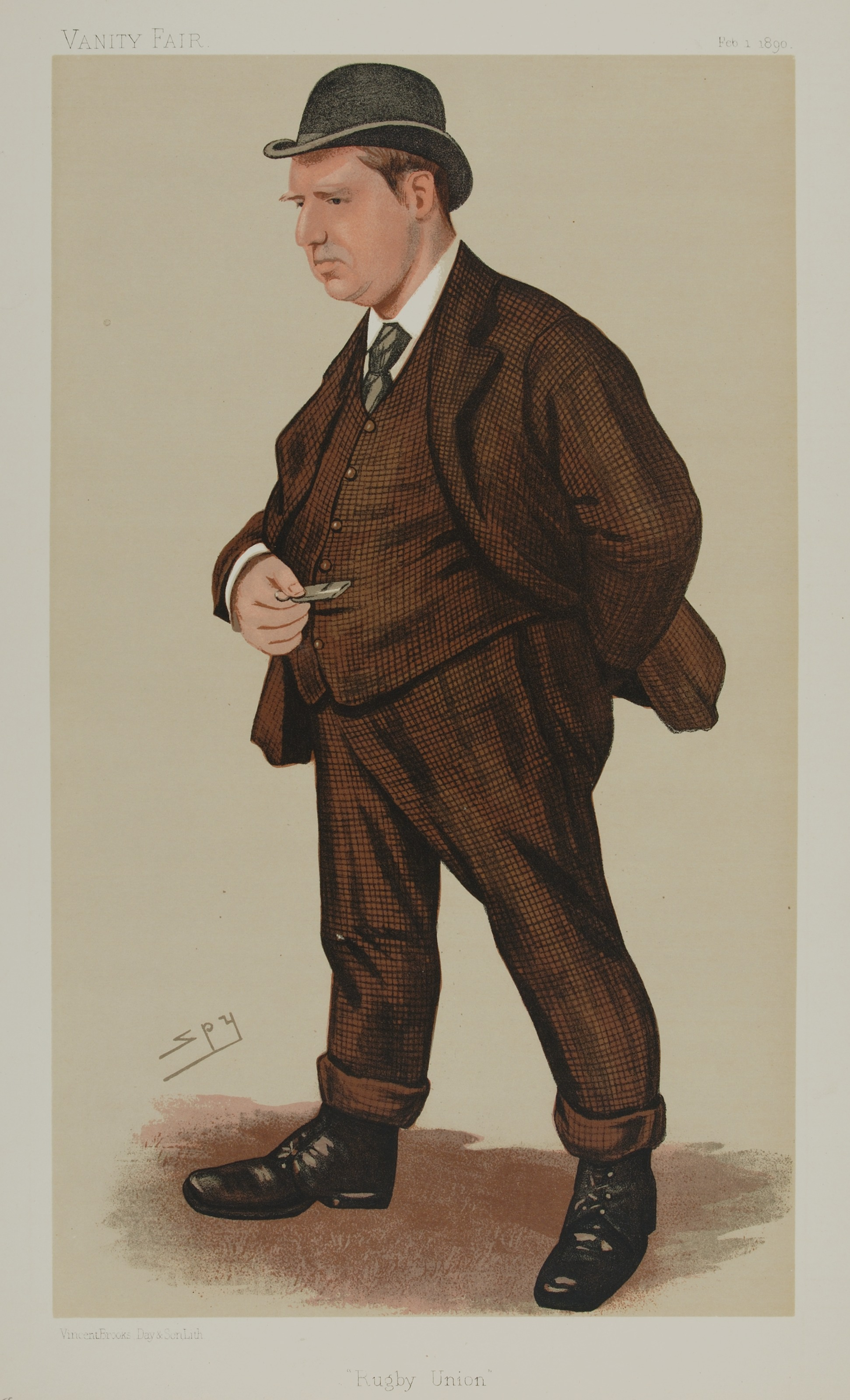 Men of the Day No. 459: Caricature of George Rowland Hill, English Rugby Union man. Caption read: "Rugby Union"